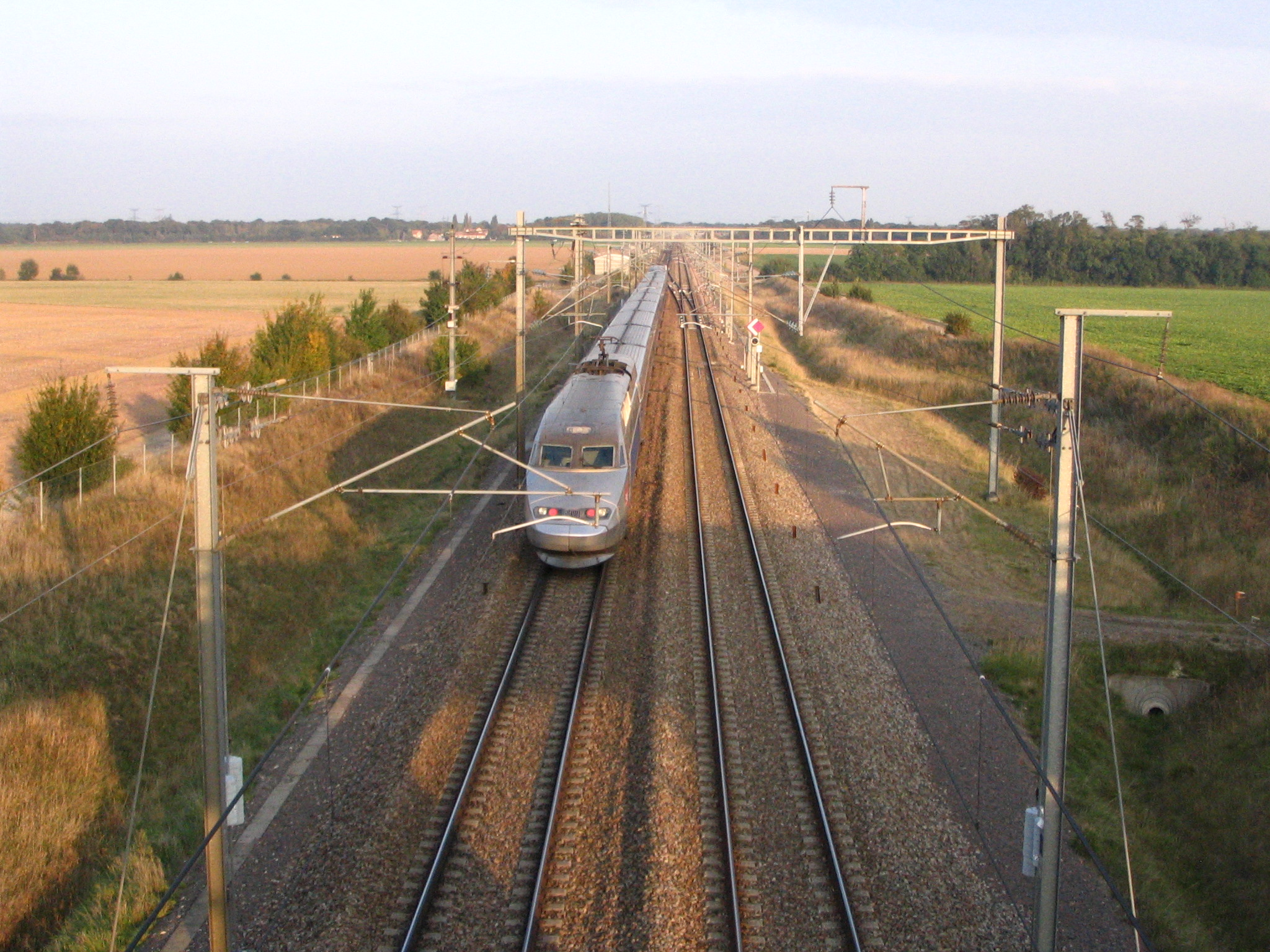 A TGV on LGV Interconnexion Est, in Grisy-Suisnes, Seine-et-Marne, France.